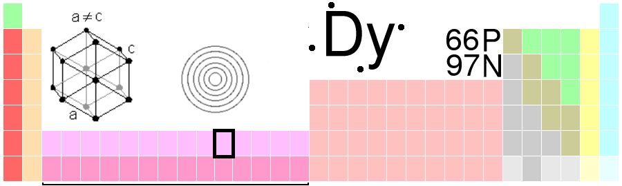 This image was copied from . The original description was: Dysprosium table image created for Wikipedia by Schnee on June 24 2003, 21:48 UTC.